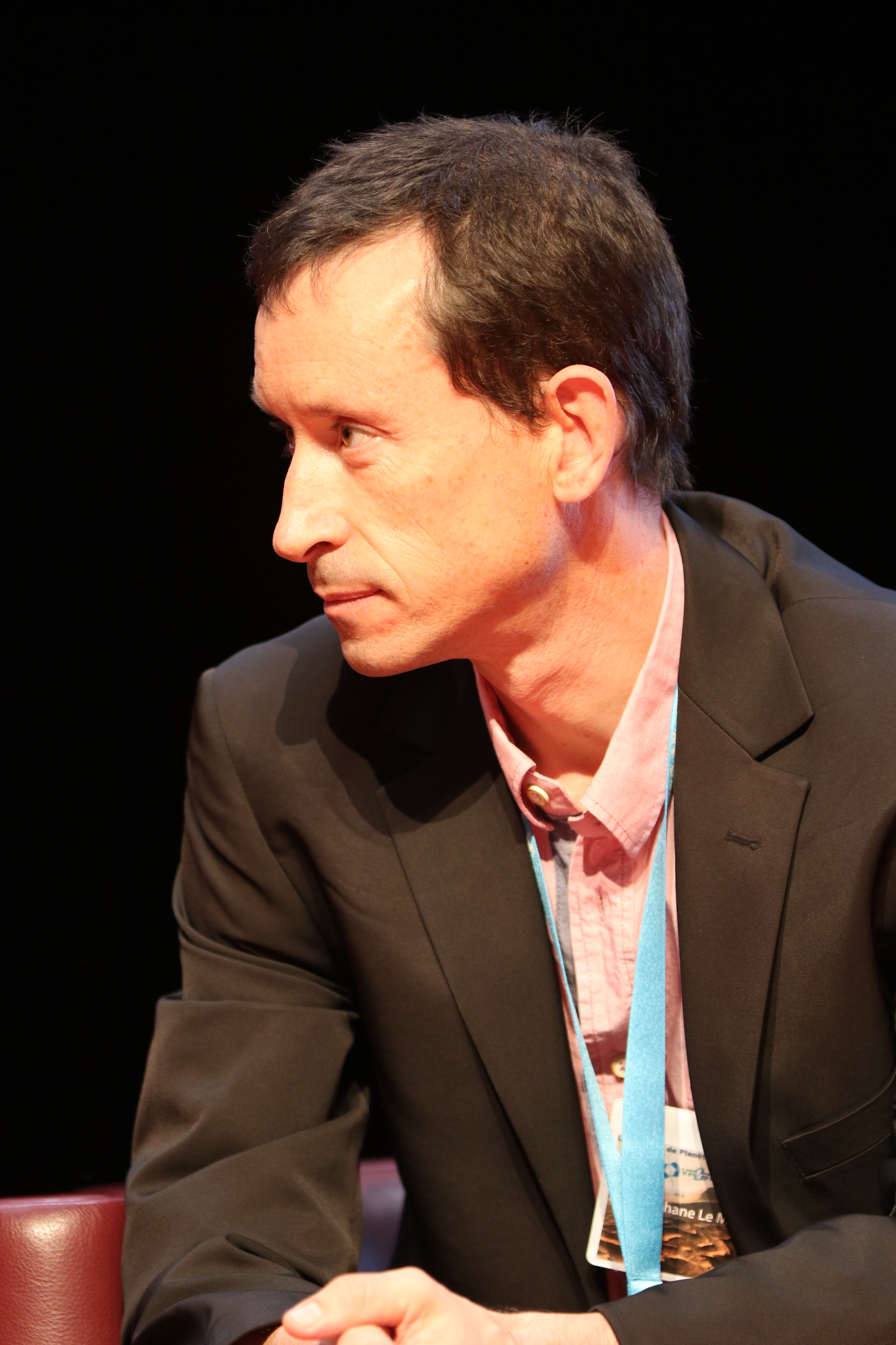 photograph taken at the 2015 edition of the "Utopiales" of Nantes.